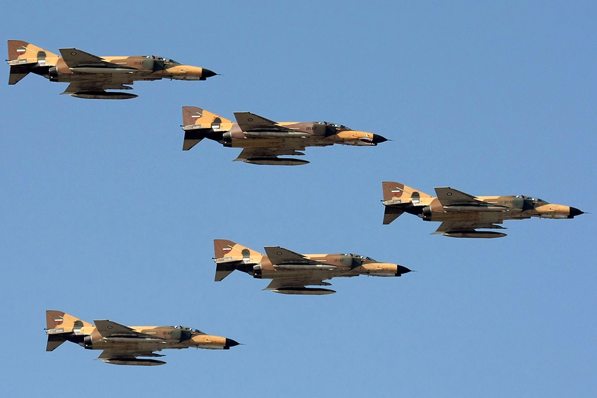 A formation of IRIAF F-4s over Bushehr. Watermark info: CC Shahram Sharifi